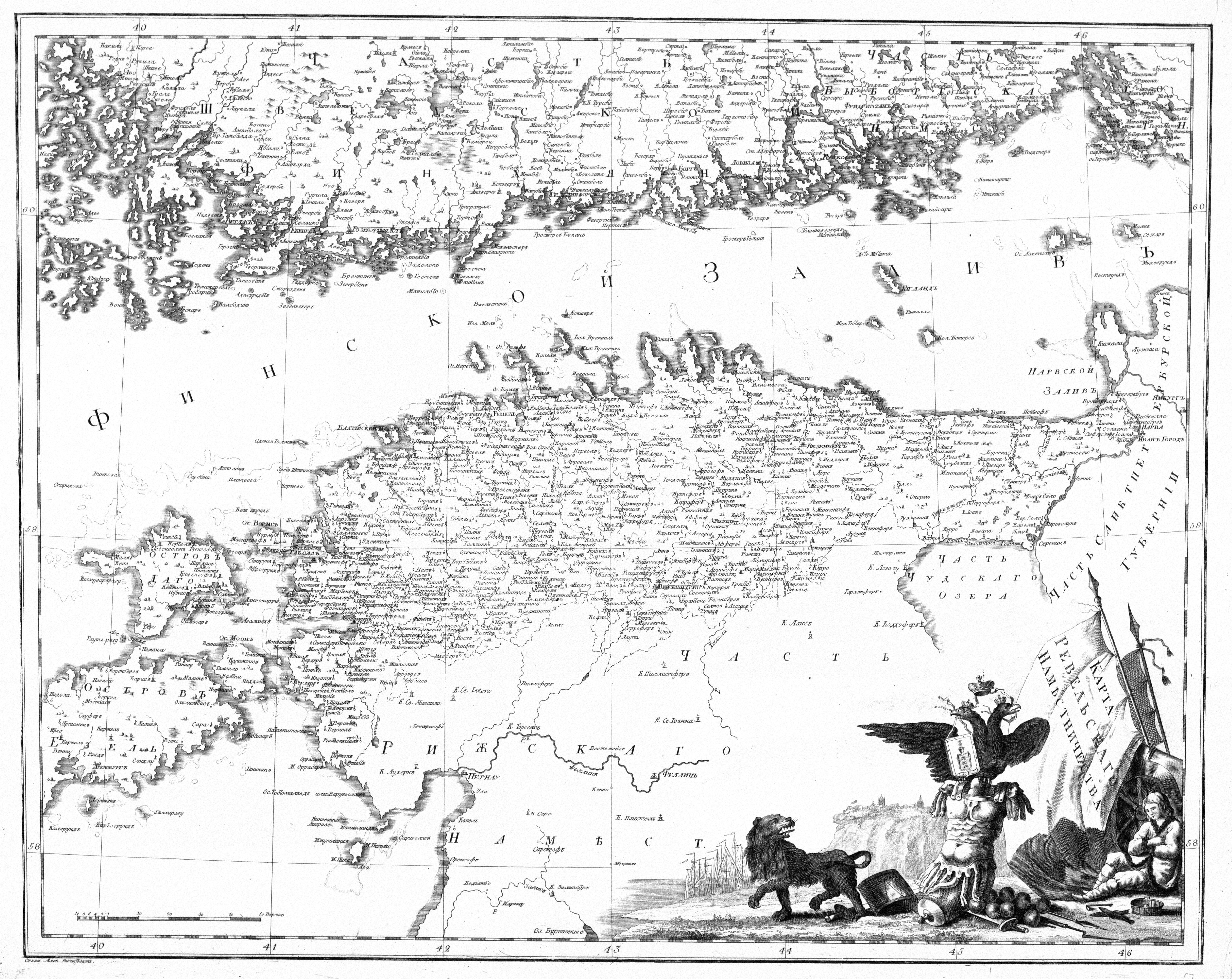 Map of Reval Namestnichestvo (sheet 7) from official Atlas of the Russian Empire (1792).